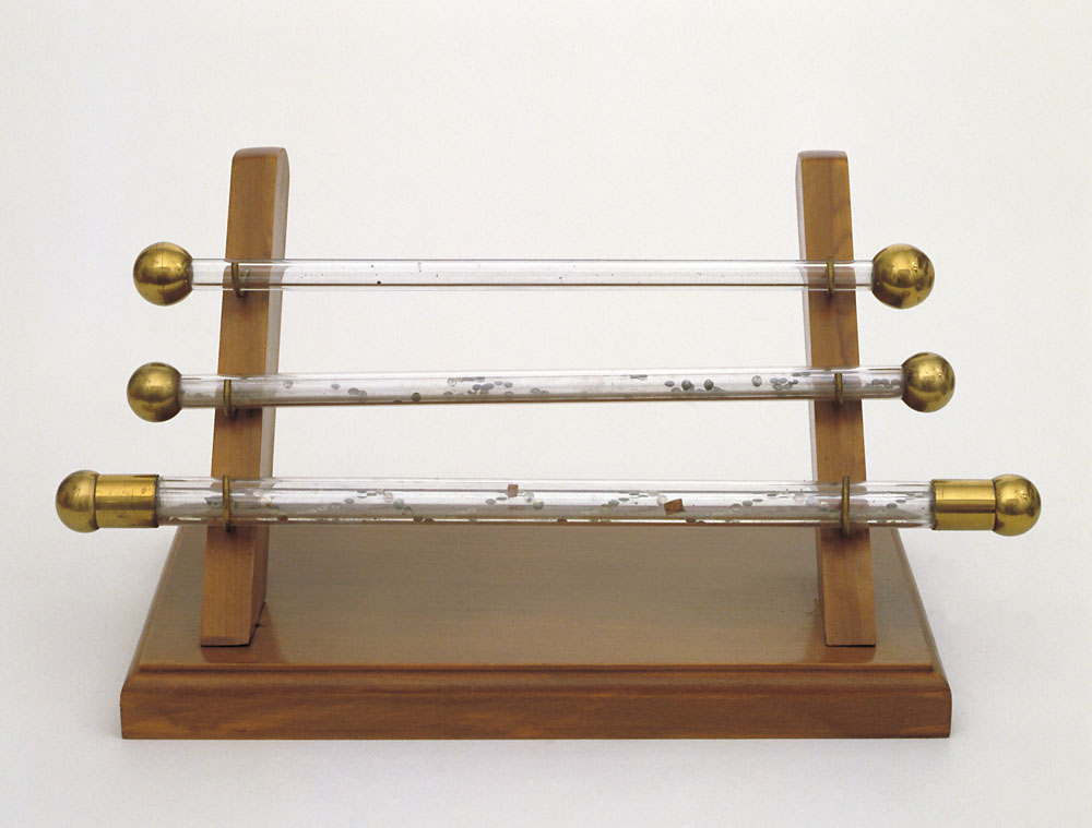 Author UnknownDescription